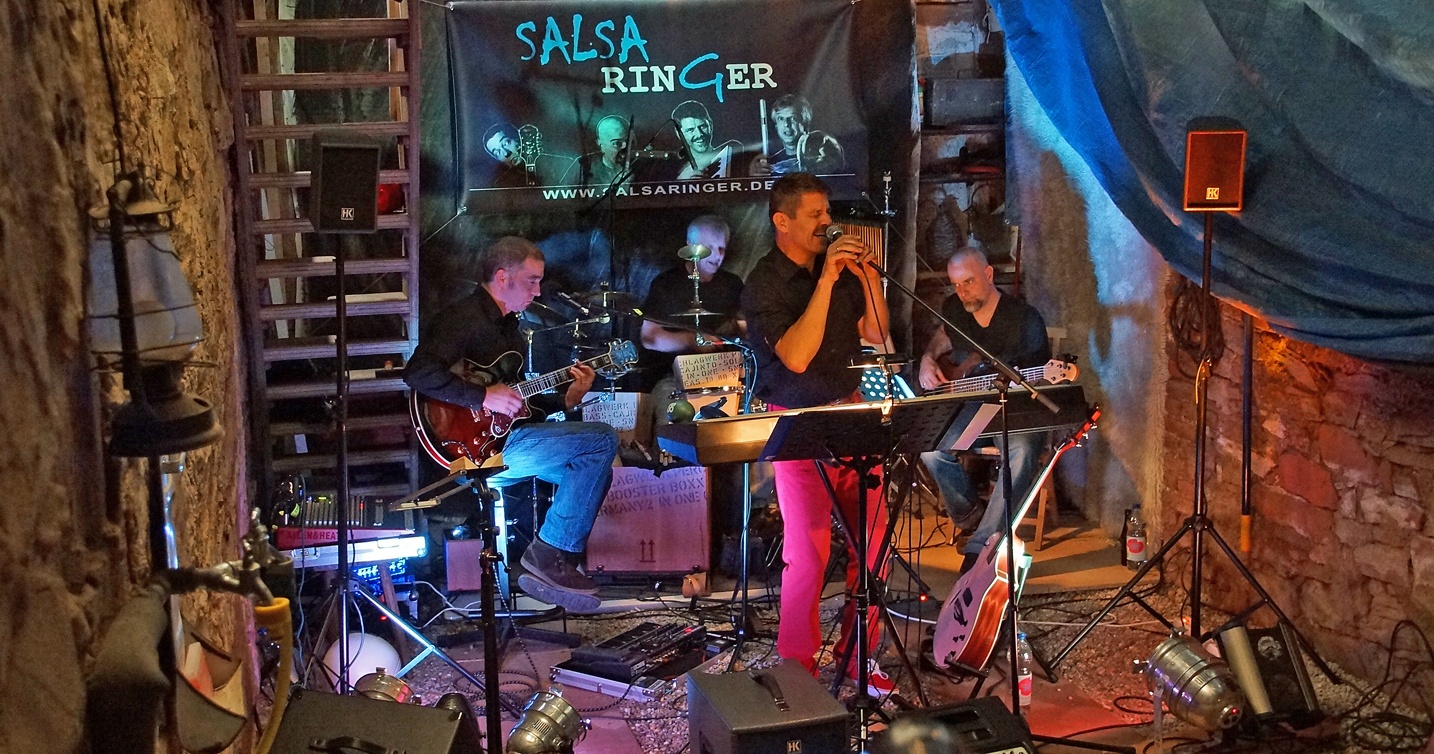 Salsaringer is a Lower Franconian dialect-band. History Salsaringer is a Kahlgrund-based band, which presents self written music and song texts from the Kahlgrund with singer/songwriter Reinhard Hofmann (Omersbach), bass player Martin Brückner (Geiselbach), guitar player Josef Bayer (Schöllkrippen) and drummer Helmut Dedio (Westerngrund-Huckelheim). They play rock, latin, jazz, folklore using the local dialect.[1] The band knows, how to impress their audience by songs in the local dialect.[2] The audience experiences everything of about the village life in songs about Oskar, the ganter, waking up by aeroplanes, tractors and chain saws, about gamblers in Les Vagos, about gardners, who change completely in spring and what happens if you ask Renate O. in Mömbris-Dörnsteinbach for directions to Omersbach.[1] External Links Video: Renate O. Songs: Gartenfreunde, Spuren, New York, Salsaringer Songtext: Salsaringer Einzelnachweise/References ↑ a b c d Gemütliche Atmosphäre und Humor. Fusionsfest: Geiselbach und Omersbach feiern 40-jährige Verbindung - Sketche, Improvisationstheater und Musik. Main-Echo vom 14. August 2012. ↑ a b Salsaringer und finesmartmusic begeistern das Publikum im Pfarrheim: Jubiläumsklubabend - ein voller Erfolg. Main-Franken katholisch vom 21. Mai 2013.